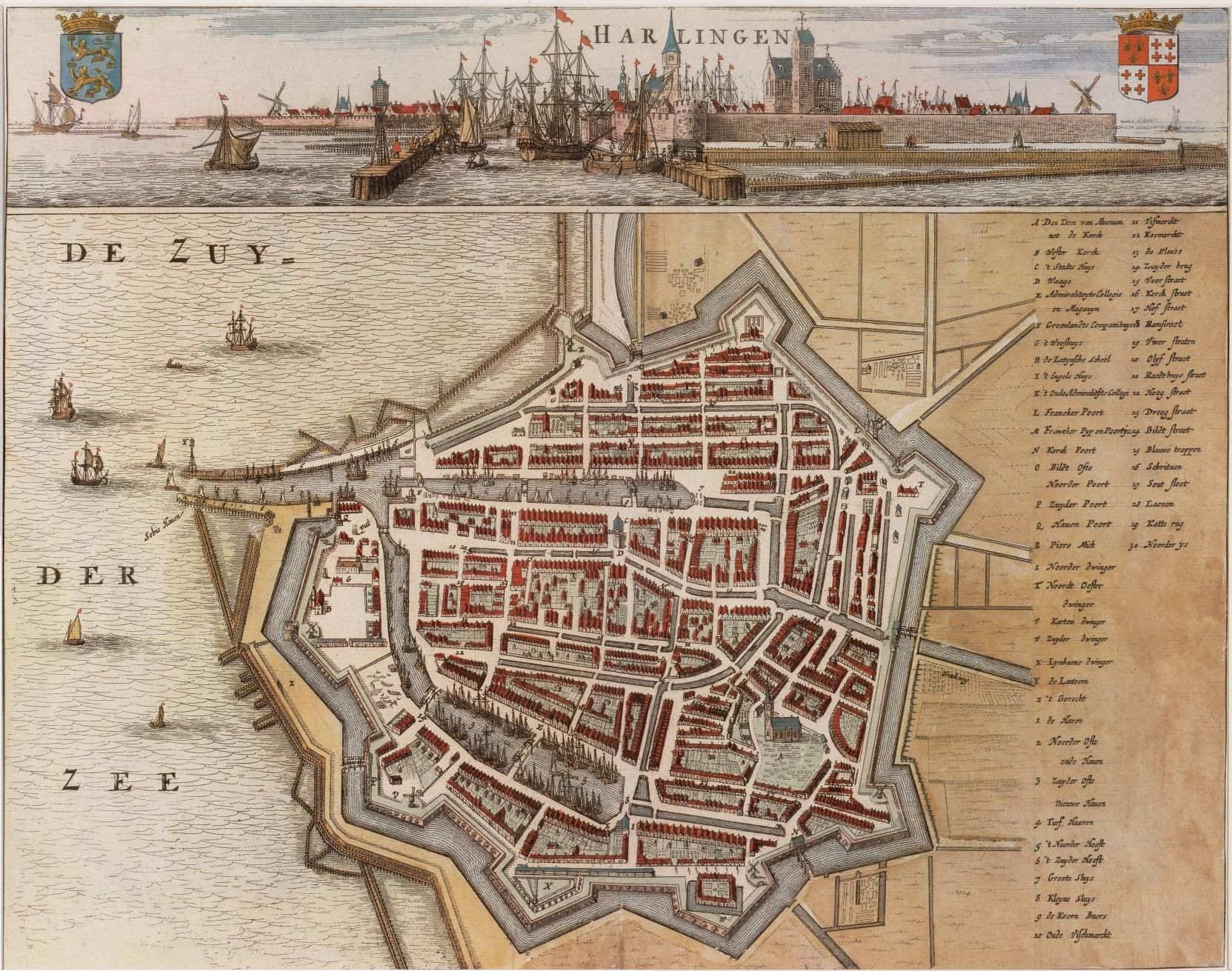 Harlingen